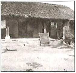 Jaybhikhkhu Birth Place Vinchiya